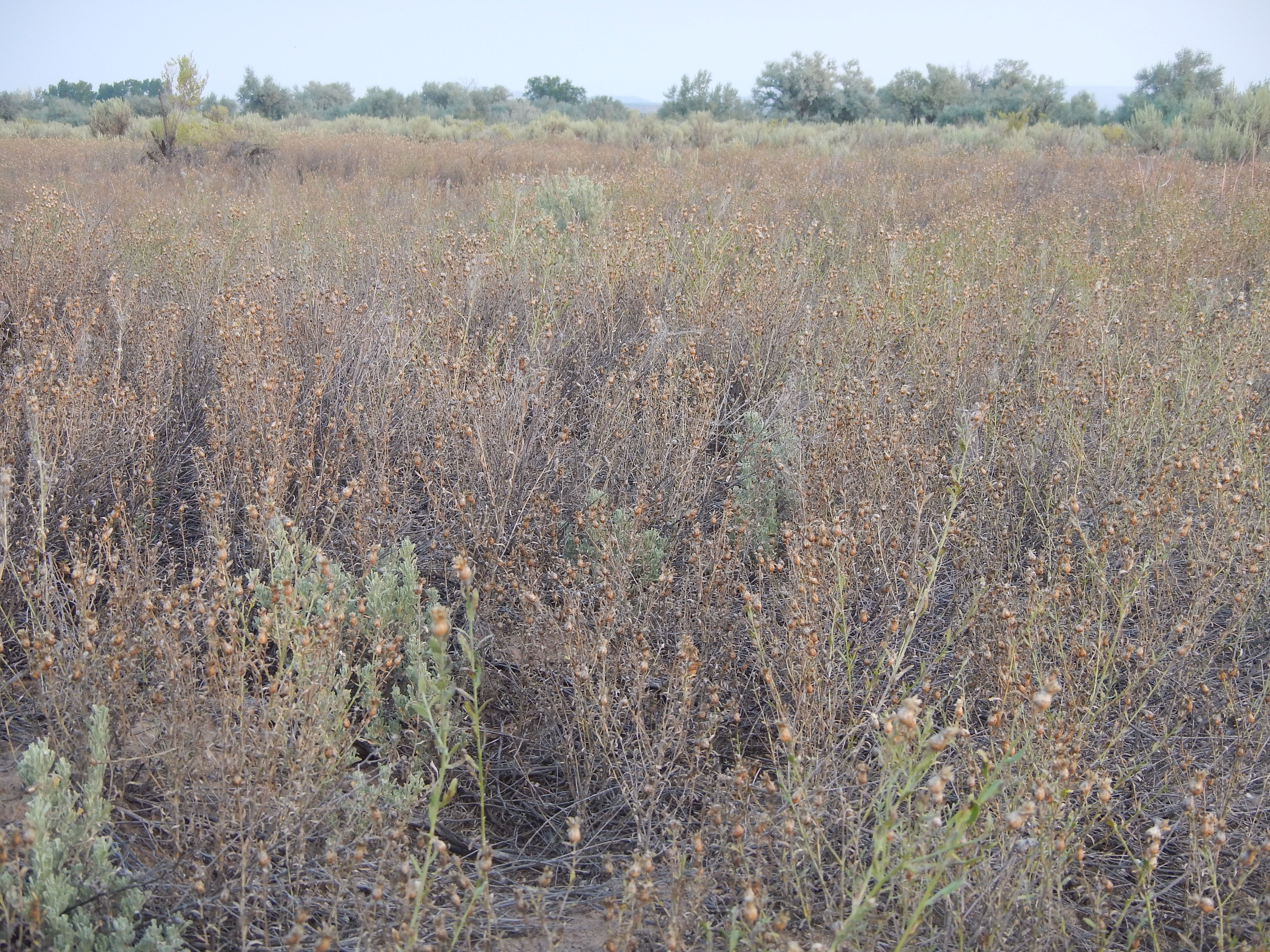 The sagebrush steppe that remains right around the town of Roosevelt includes not Bromus tectorum but rather dense stands of Acroptilon repens (hardheads or Russian knapweed). Aside from very few stems of Bromus tectorum, no other grass or herb species was observed in this vegetation.